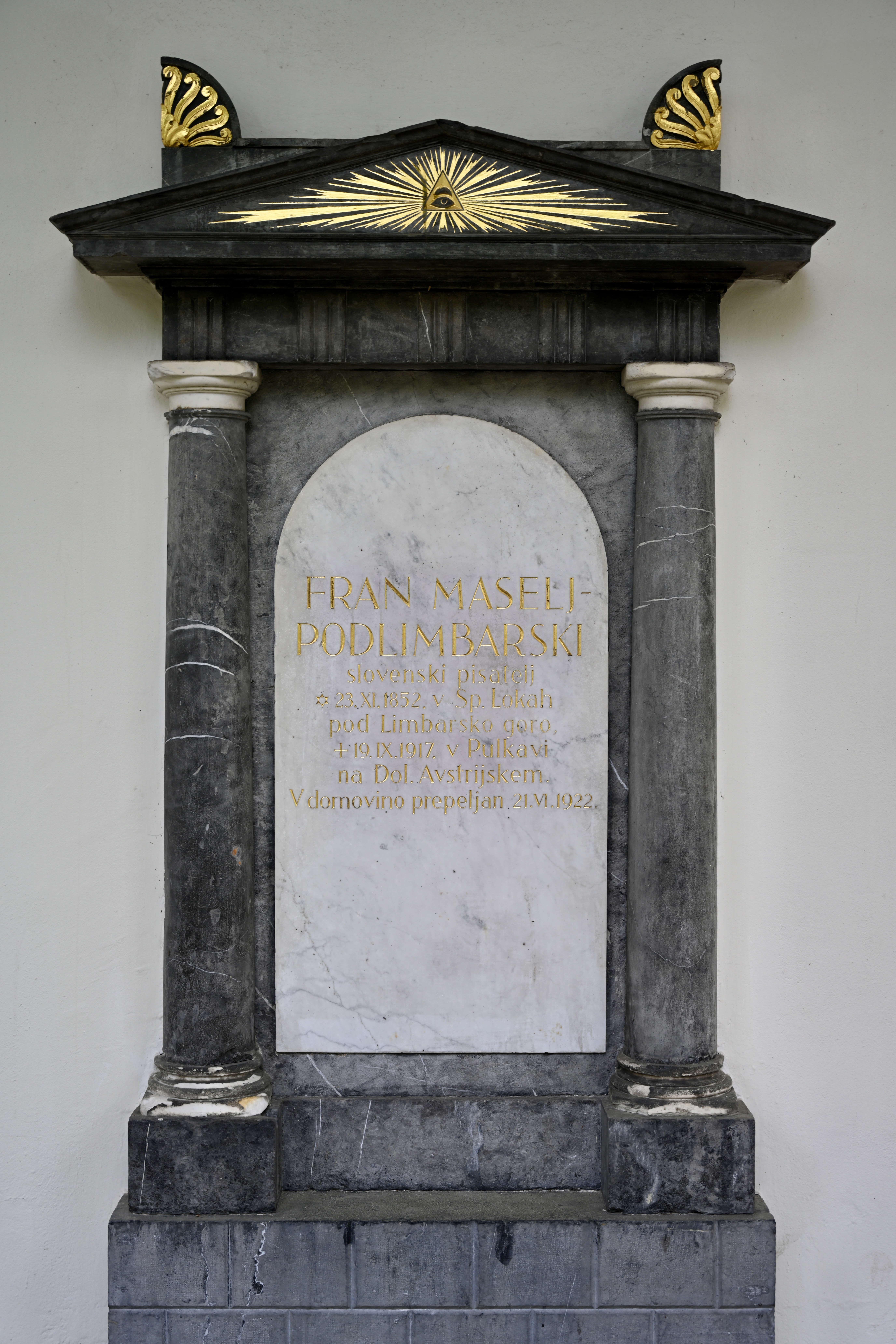 Grave stone of Fran Maselj Podlimbarski at Navje in Ljubljana